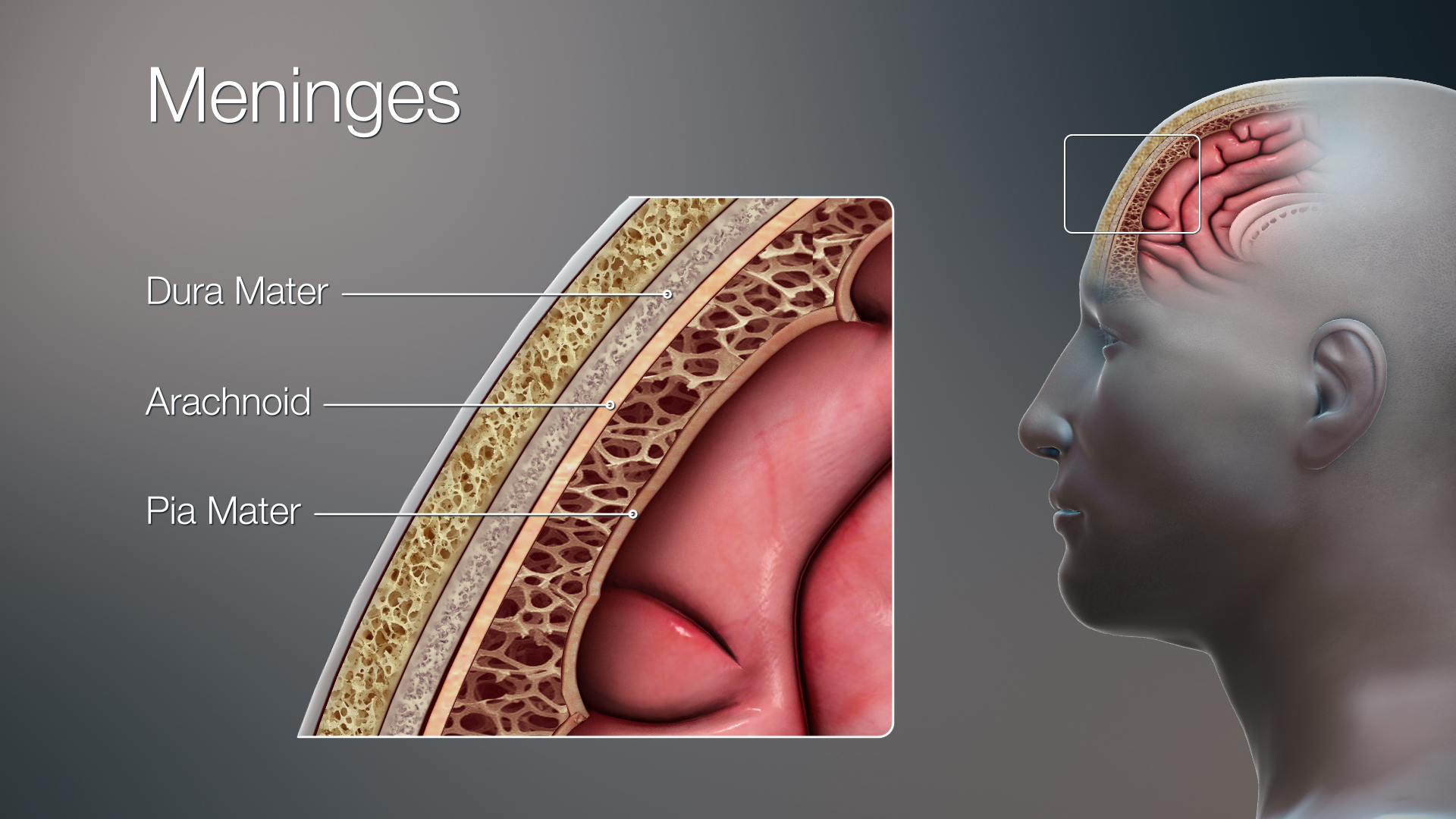 A detailed depiction of different layers in skull using a 3D medical animation still image, with special focus on different layers of Meninges.